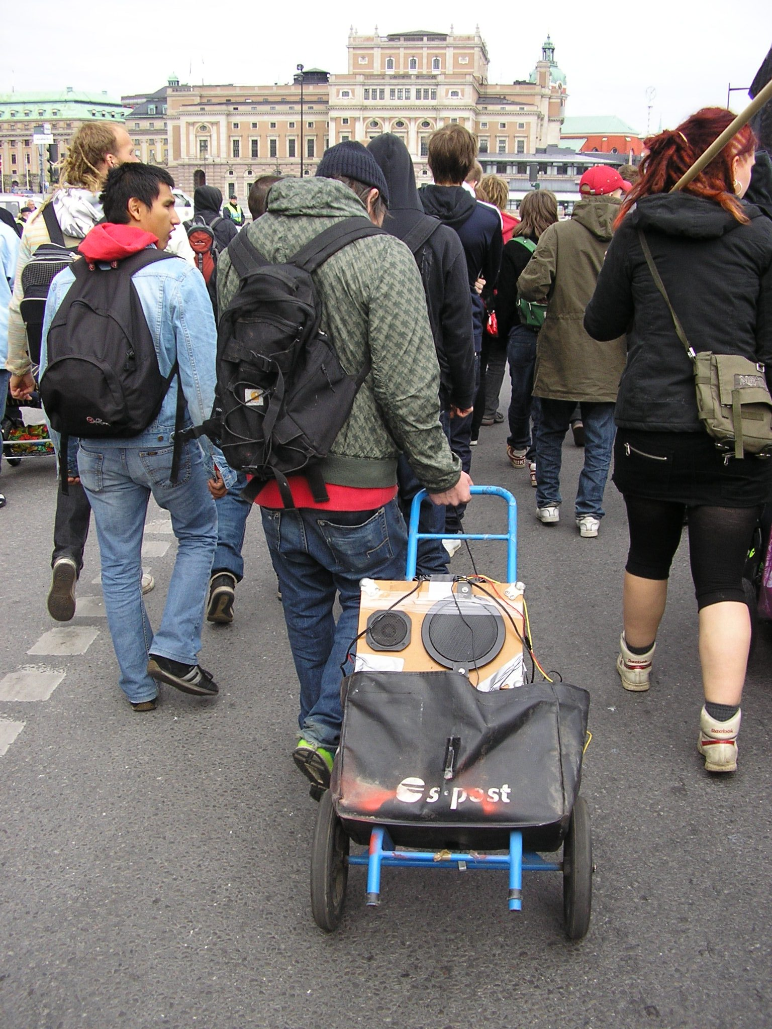 A portable soundsystem